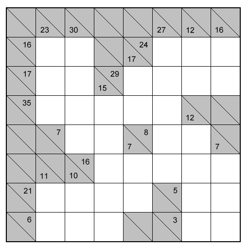 Easy cross sum (Kakuro) puzzle